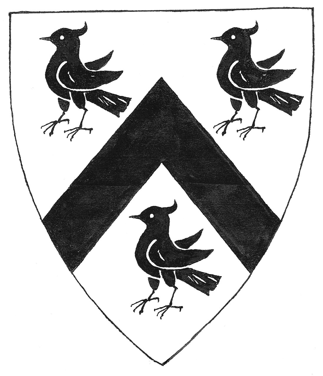 Arms of John Twynyho (d.1485) of Cirencester, Gloucestershire: Argent, a chevron between three lapwings sable. (Source: Chitty, Heralds' Visitation of Gloucestershire 1623, pp.262-3, "Twinyho") As seen on the "Founder's Tomb" in Fairford Church, Gloucestershire, on which survive the monumental brasses of his daughter Alice Twynyho and her husband John Tame (d.1500), builder of Fairford Church. Artwork own work of (Lobsterthermidor (talk) 18:41, 1 July 2011 (UTC)), release into public domain.